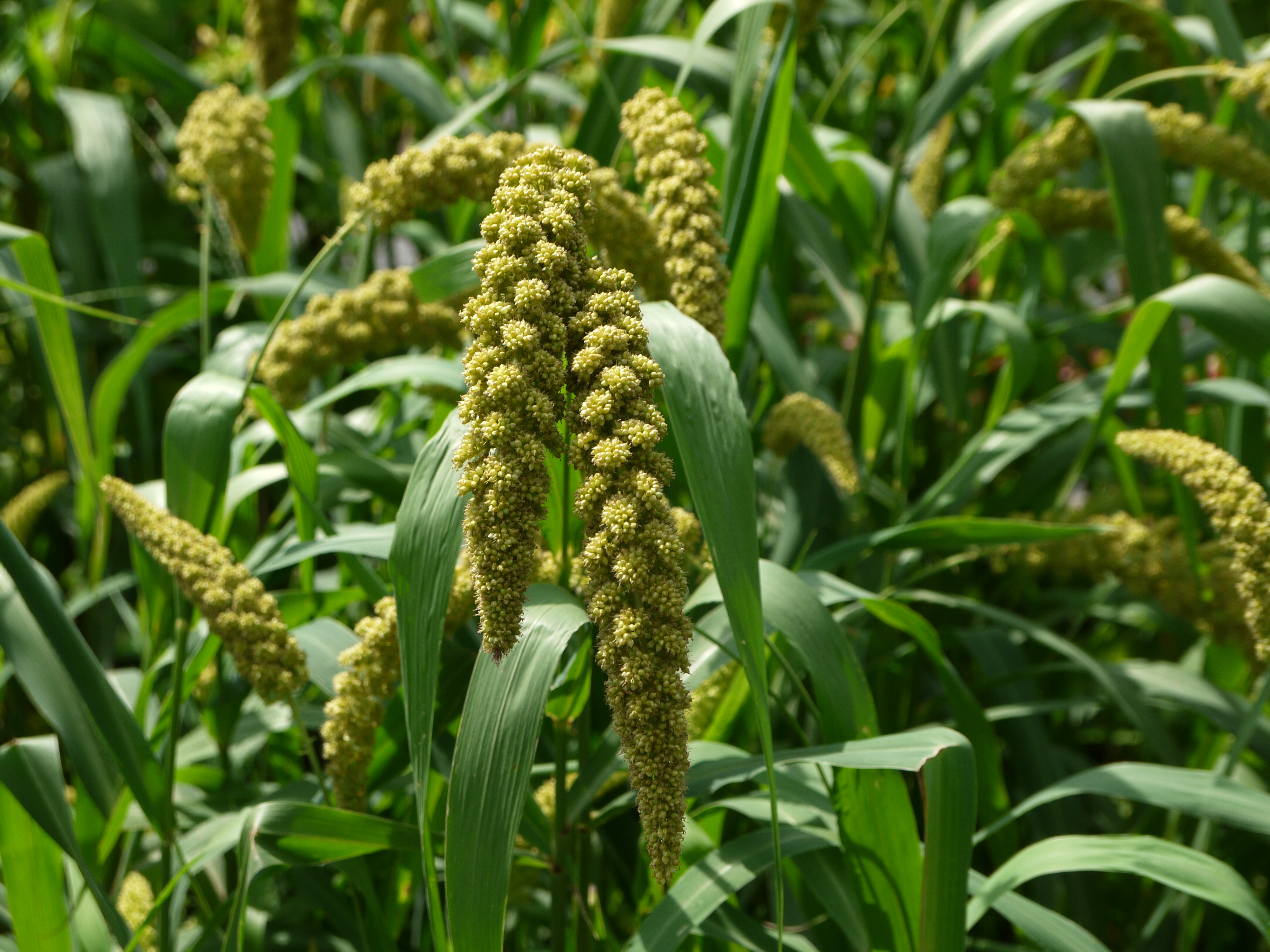 Japanese Foxtail millet 01.